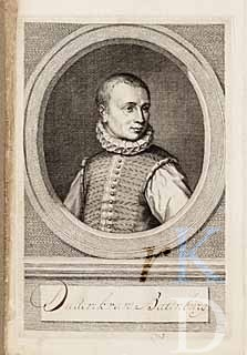 Dirk van Bronckhorst en Batenburg died: 1-6-1568 at Brussel. Tekende samen met zijn broer Gijsbert het Verbond der Edelen. Beide broers begaven zich in dienst van hun neef Hendrik van Brederode. Nadat hun leger in 1567 uiteenviel vluchtten zij naar Emden, werden onderweg verraden en naar Brussel gevoerd waar zij onthoofd werden.